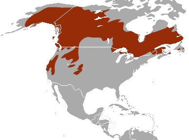 American Marten (Martes americana) range, with national borders added